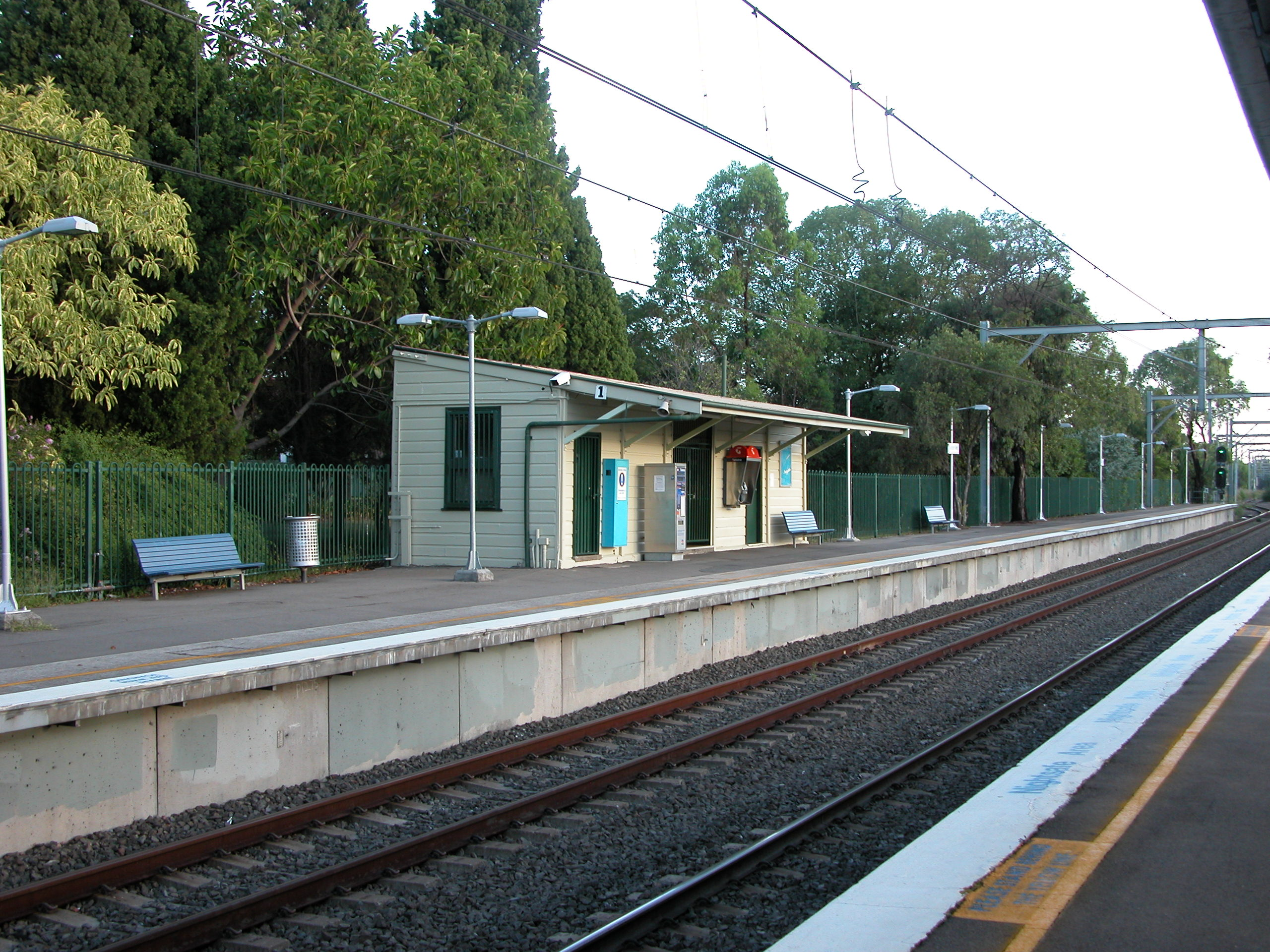 Railway Station Concord West - waiting room on platform 1. Author: Stephen Frede